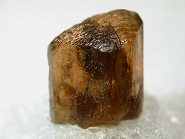 Enstatite, small and transparent 1.5 by 1.2 cms crystal - Locality: Kilosa District, Morogoro Region, Tanzania